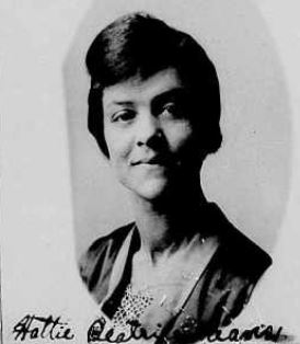 African American singer Hattie King Reavis, 1919